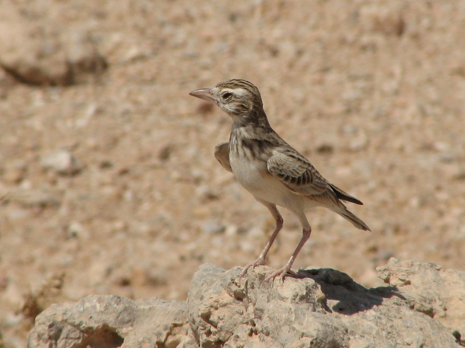 A Stark's Lark in the Namib desert, Namibia